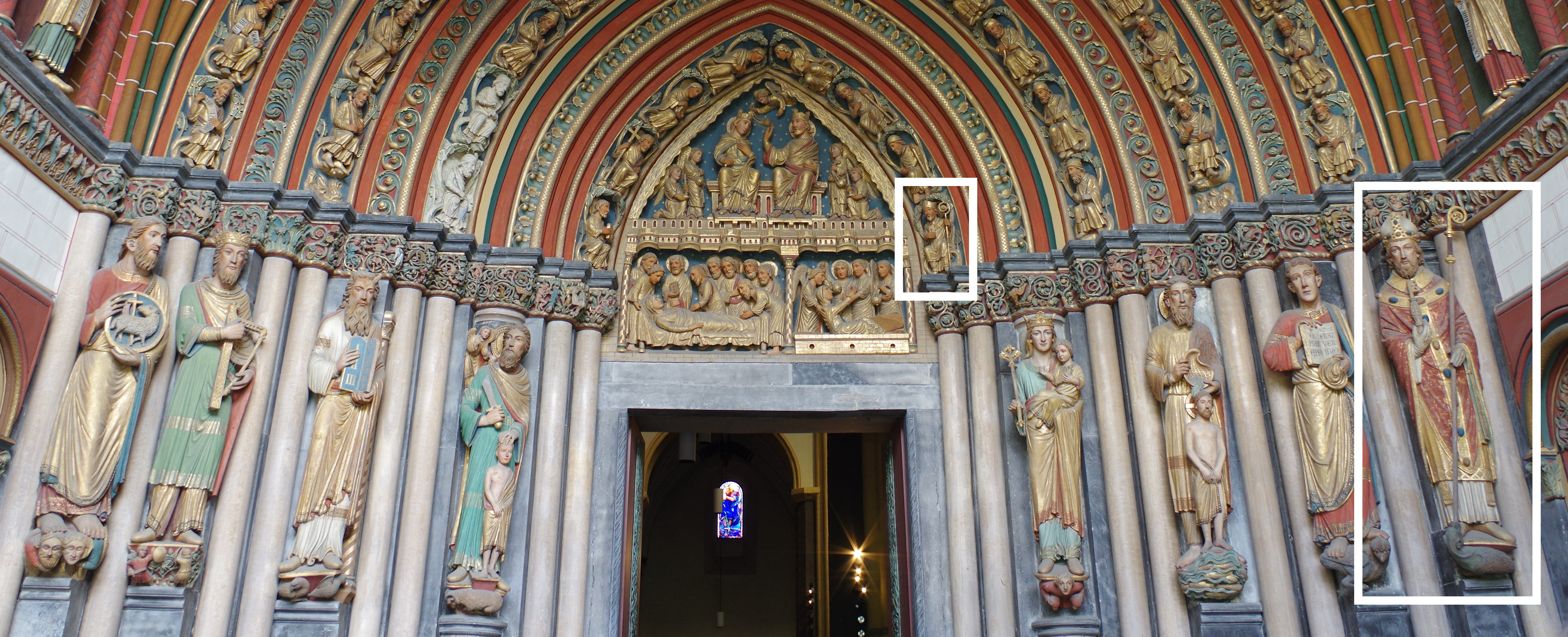 Sint-Servaasbasiliek (Maastricht), South portal (Bergportaal) with two statues of Saint Servatius.